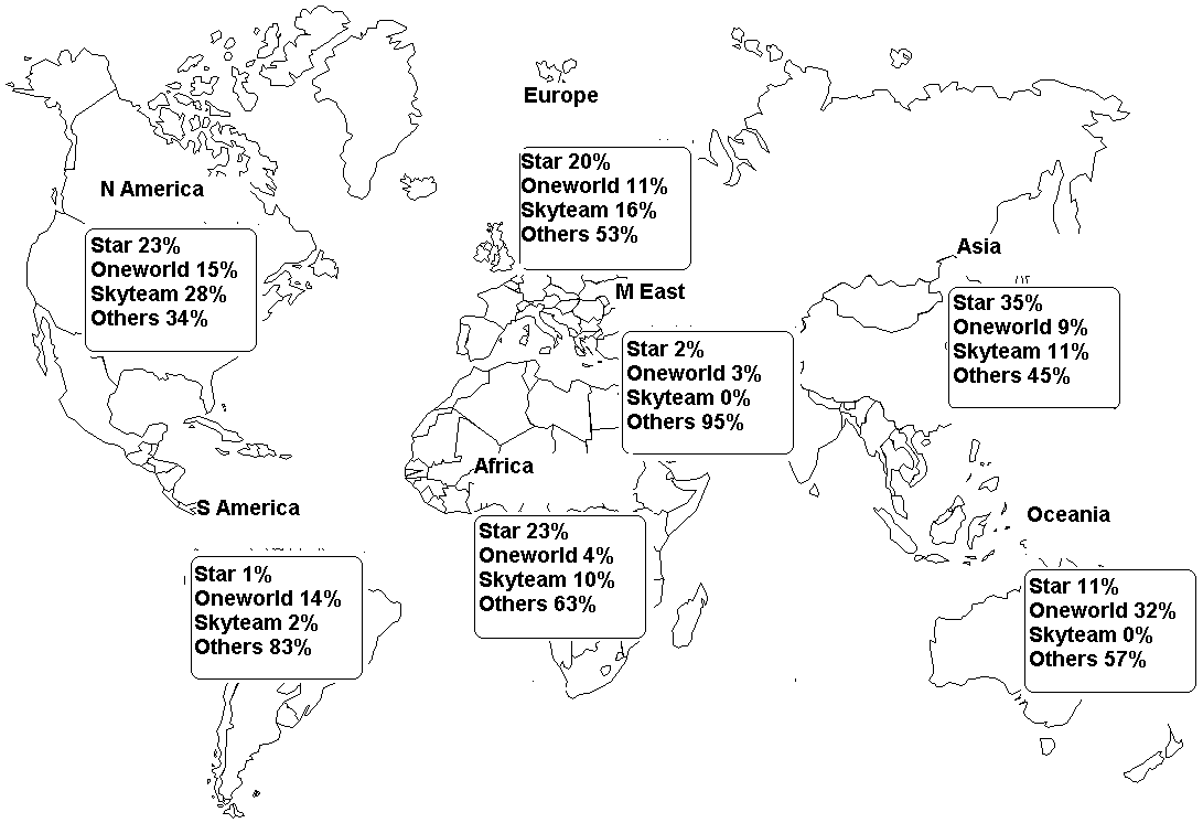 World airline market share -- Capacity shares within traffic region Data from Drawing by me